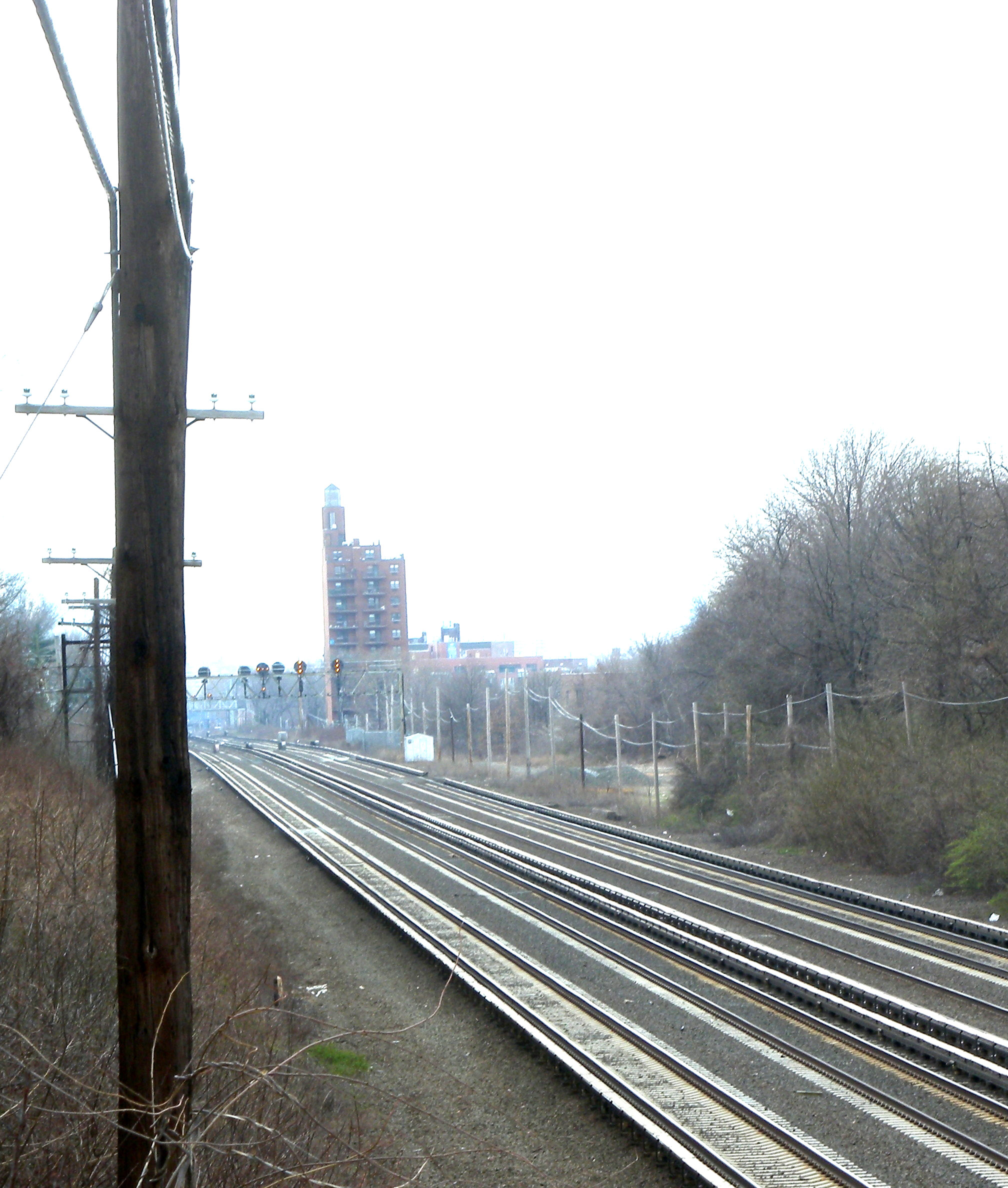 Looking northwest across the tracks at an empty space where Rego Park (LIRR station) used to be, from a pedestrian overpass.